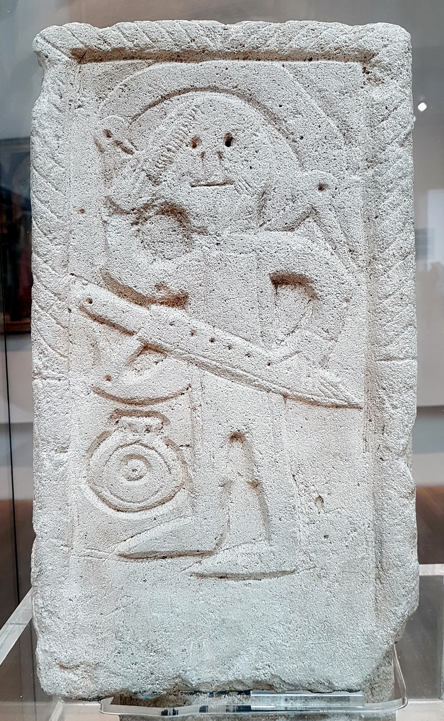 Early-Christian gravestone (7th c.) from Niederdollendorf (Königswinter) in the Rheinisches Landesmuseum in Bonn, Germany.